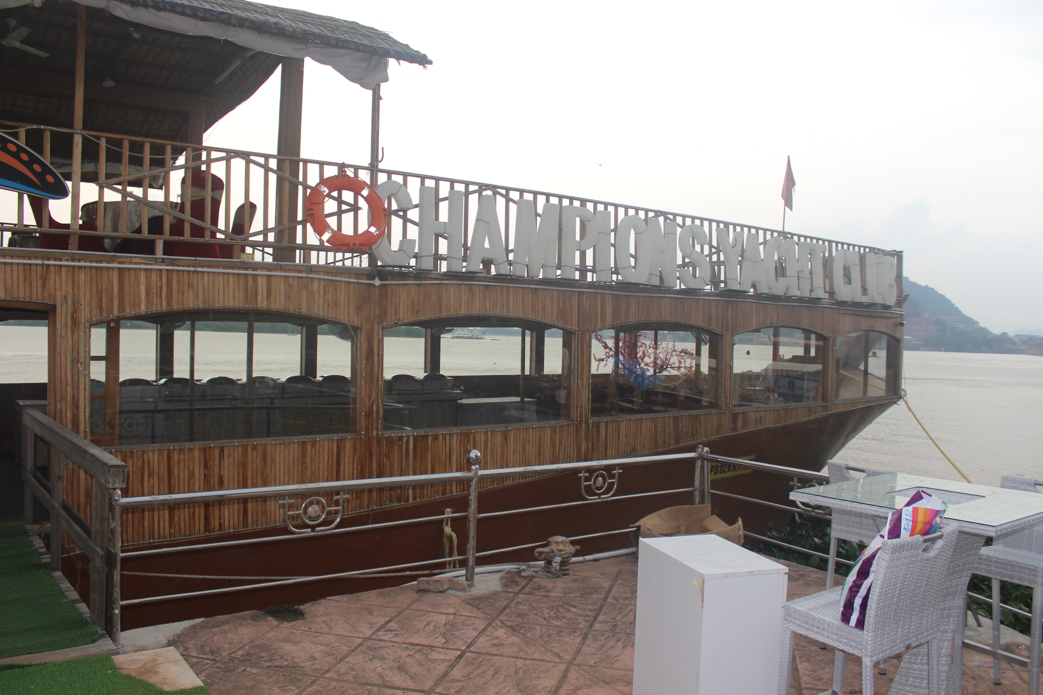 The resort has boating facilities to Bhavani Island and a tour around the reservoir of Prakasam Barage.